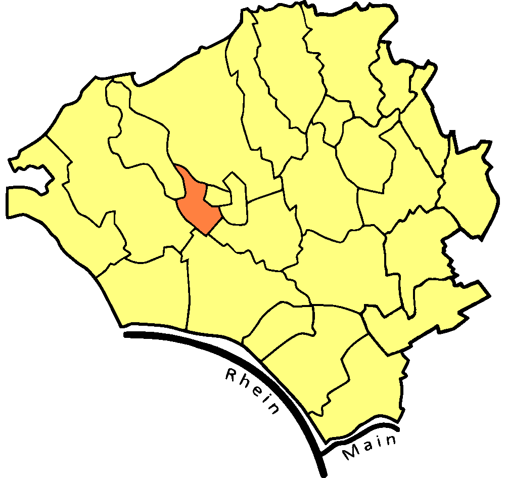 Map of Wiesbaden showing the location of Rheingauviertel